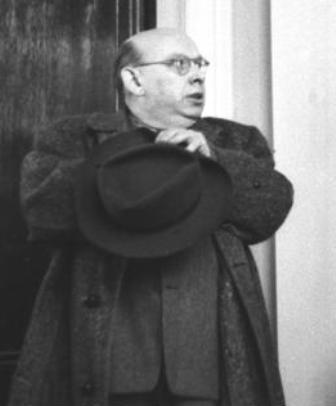 Original image description misspelled: "Bertolt", not "Bertold" See also: File:Bundesarchiv Bild 183-19204-2132, Berlin, Bertolt Brecht und Hanns Eisler.jpg (pageid 5341441) -- apparently cut off right half